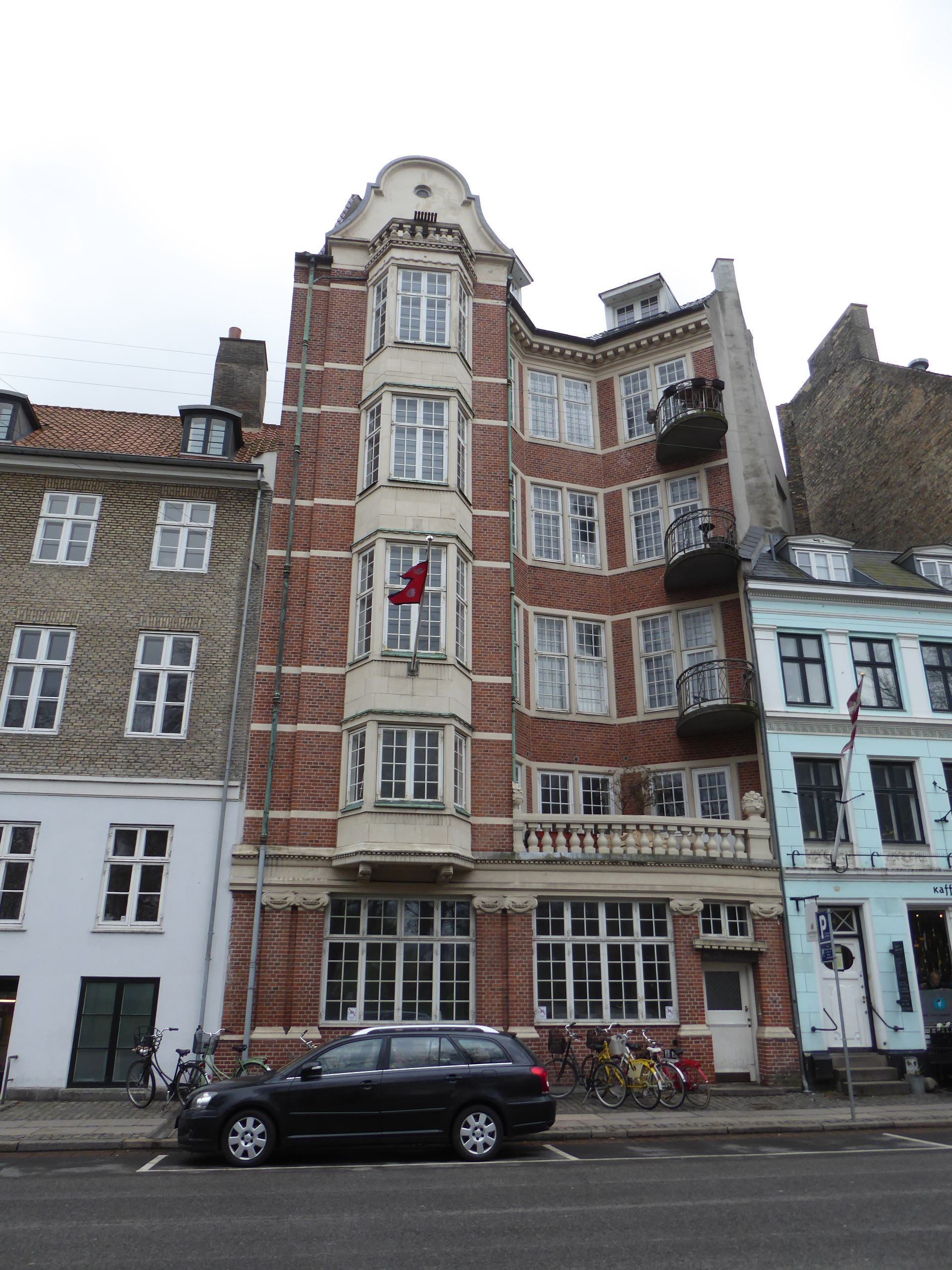 The embassy of Nepal at Esplanaden in Indre By in Copenhagen.